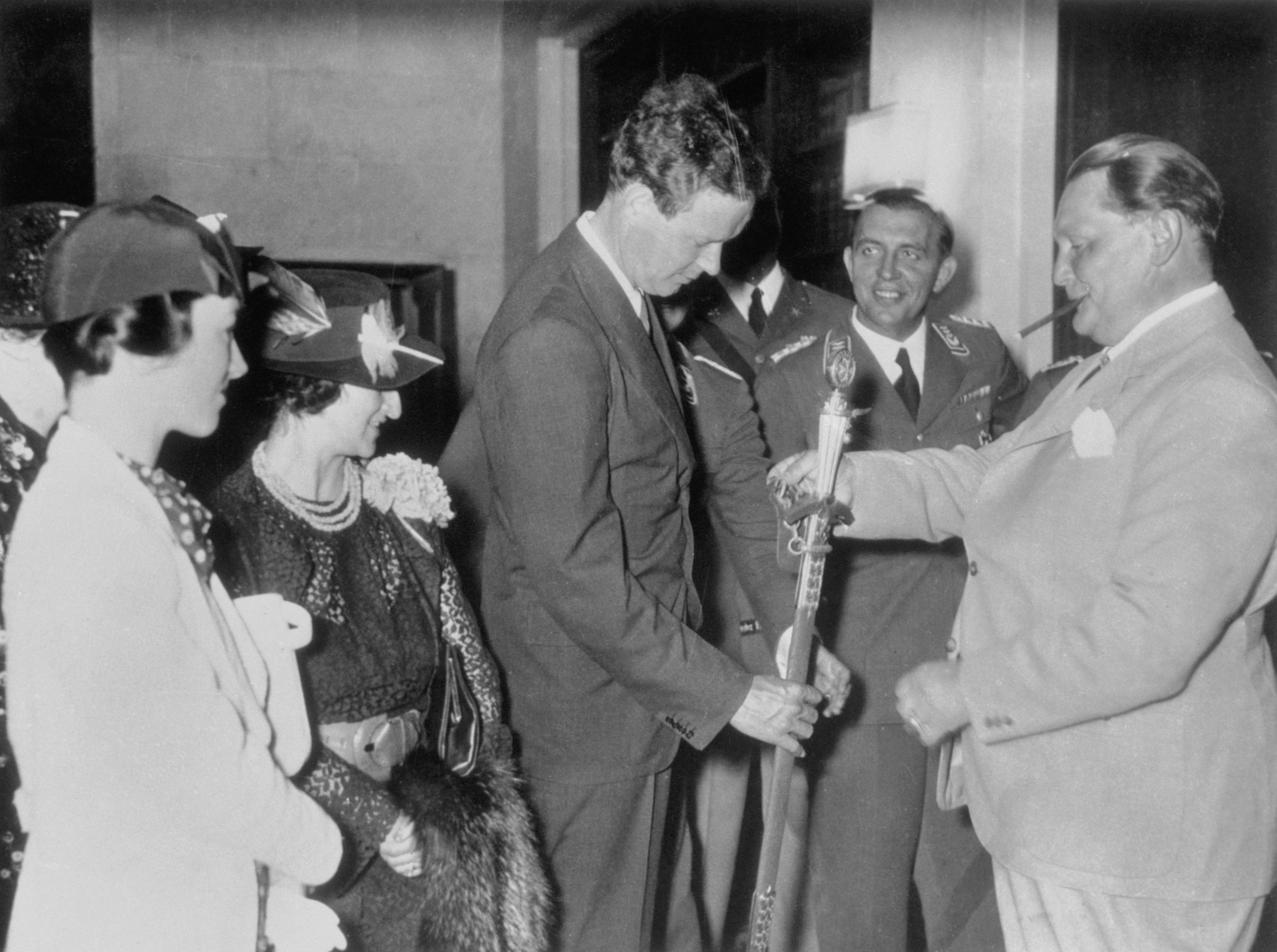 Hermann Goering presents a medal to Charles Lindbergh.